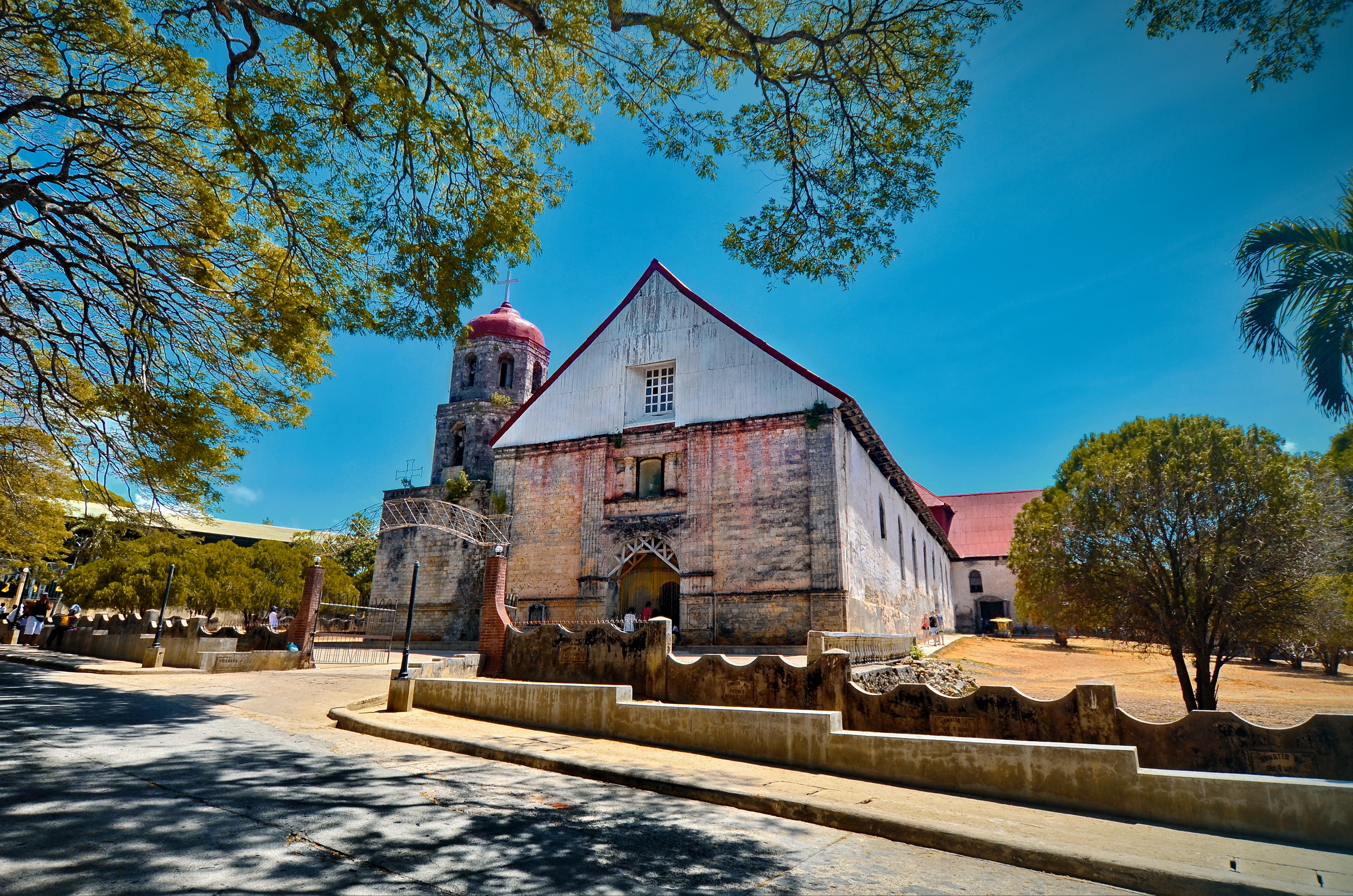 The San Isidro Labrador Parish Church, commonly known as Lazi Church was built in 1884 by Filipino artisans followed by the bell tower in the following year. The church was built of sea stones and wood and it belongs to the neoclassical style. It has two pulpits and has retained its original retablo and wood florings. In 2003, the National Commission for Culture and the Arts (NCCA) spearheaded a conservation project for 26 Spanish Colonial Era churches and the Church of San Isidro Labrador was one of these churches.[3]